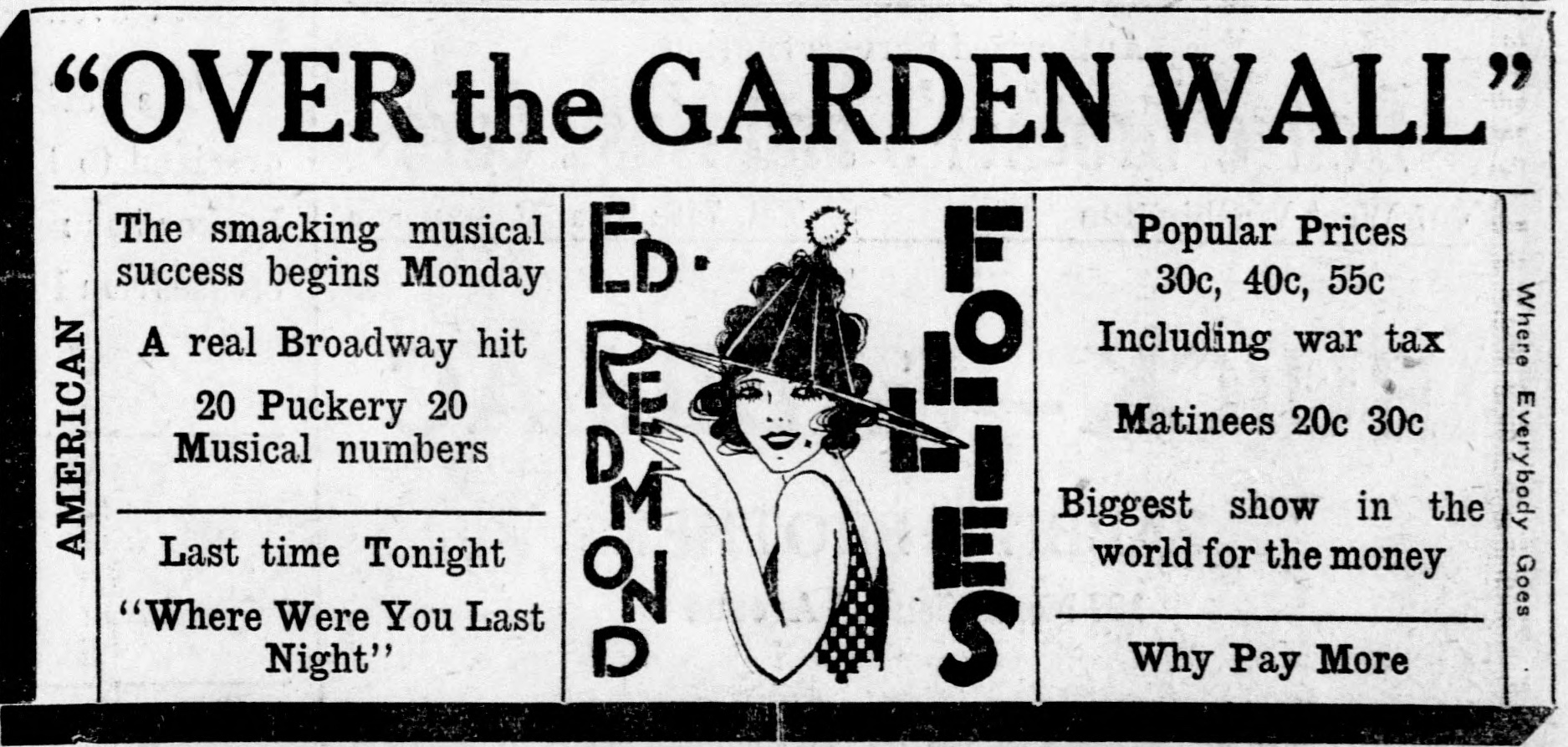 Over the Garden Wall, 1919 film advert